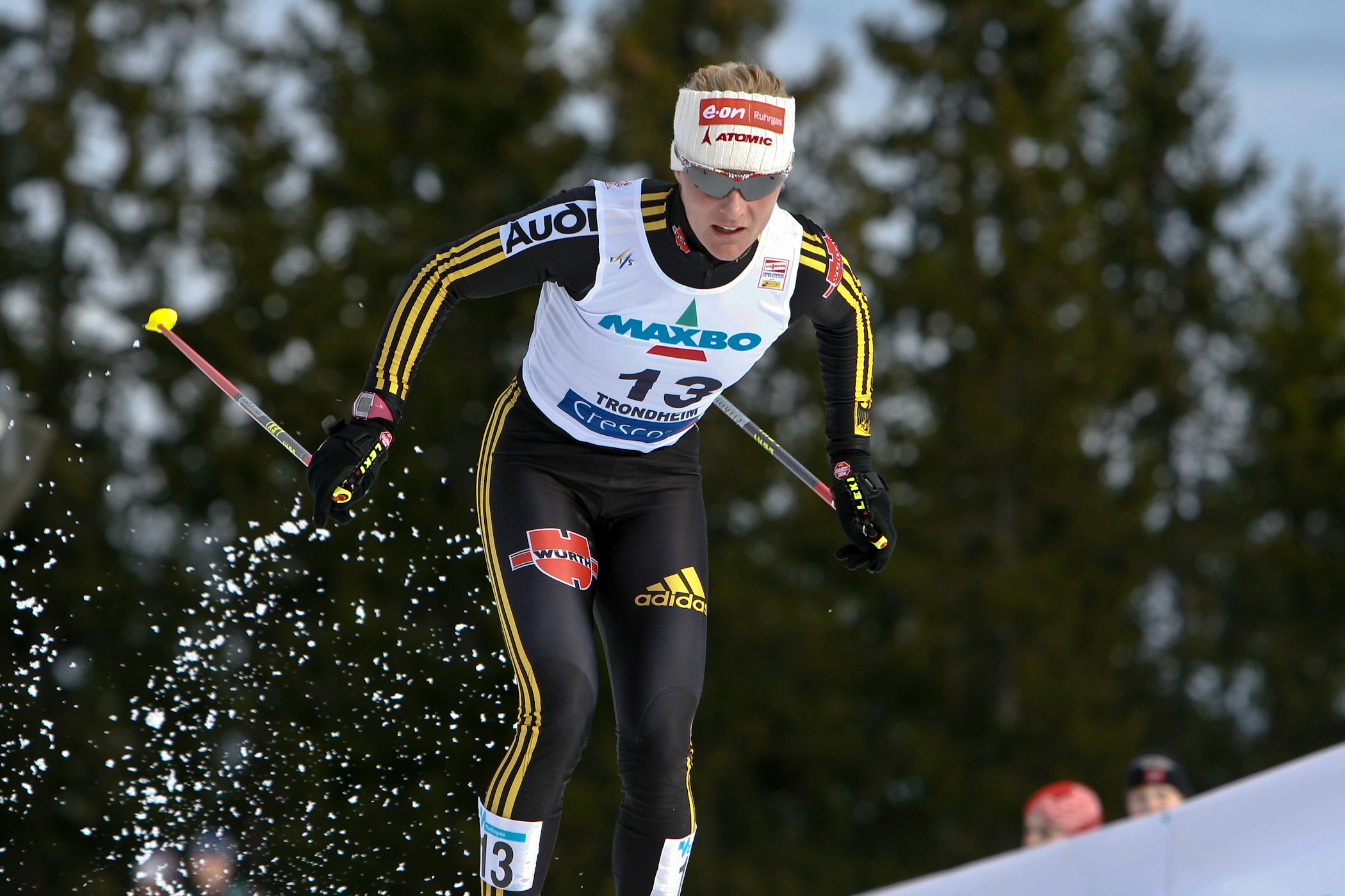 Claudia Künzel-Nystad at the FIS World Cup Trondheim 2009, 30 km women. The license on this photo was changed on 11 February 2010 from All rights reserved to Creative Commons (CC-BY-SA). At the same time, a bigger version (2100x1400px) of the photo replaced the old one. If you use this picture, remember to give credit according to the license (